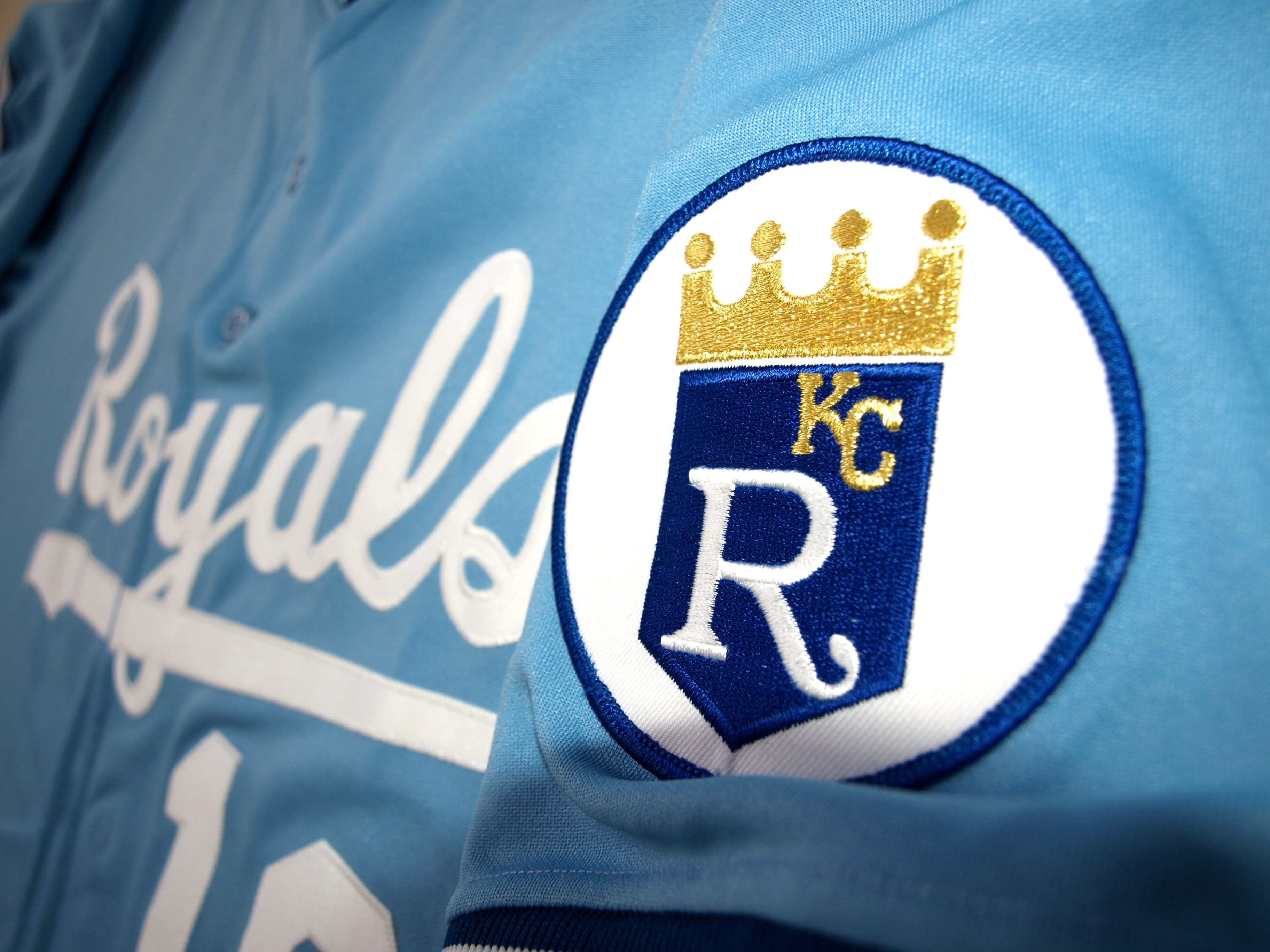 A replica of the Kansas City Royals' 1989 away uniform, manufactured by Mitchell & Ness. The Royals wore the iconic powder blue away uniforms from 1973 to 1991 and was re-introduced as an alternate uniform in 2008.